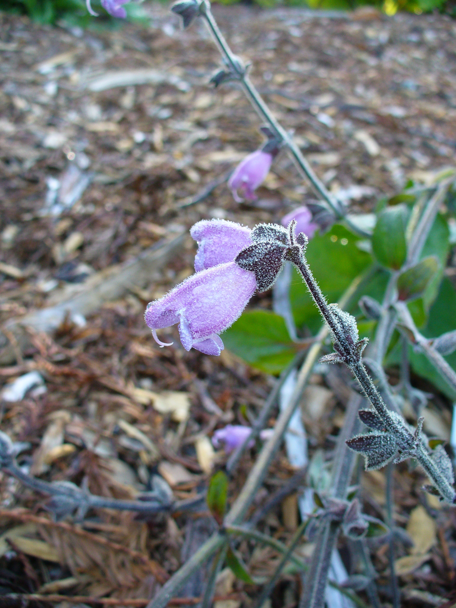 Botanic Garden, Cabrillo College, Aptos, CA. Photographed during the Salvia Summit, 1-2 Aug 2008.